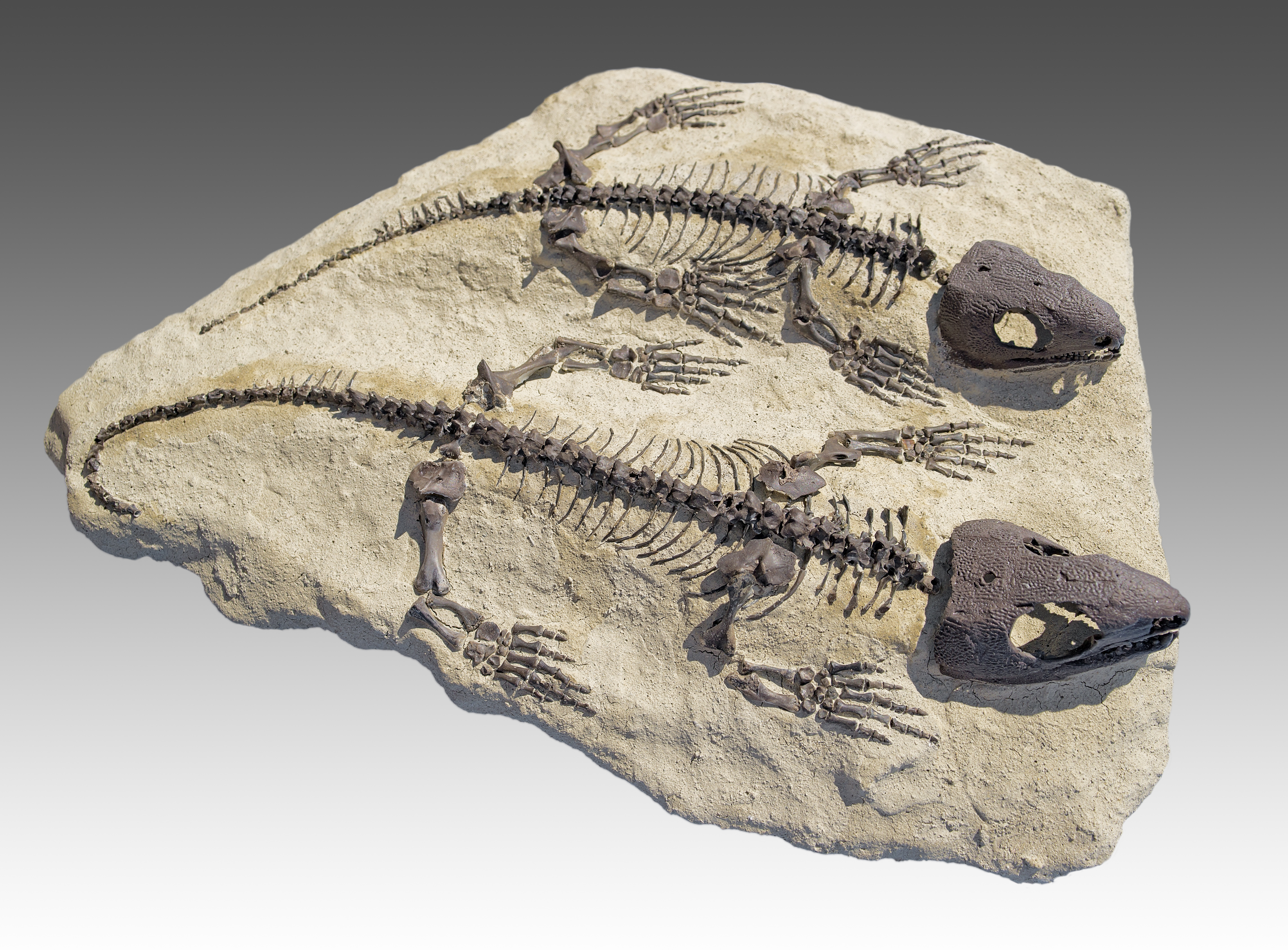 Captorhinus aguti Stage : Early Permian or Cisuralian (299.0 ± 0.8 - 270.6 ± 0.7 Mya) Locality : Dolese Brothers quarry near Fort Sill, Comanche County, Oklahoma, U.S